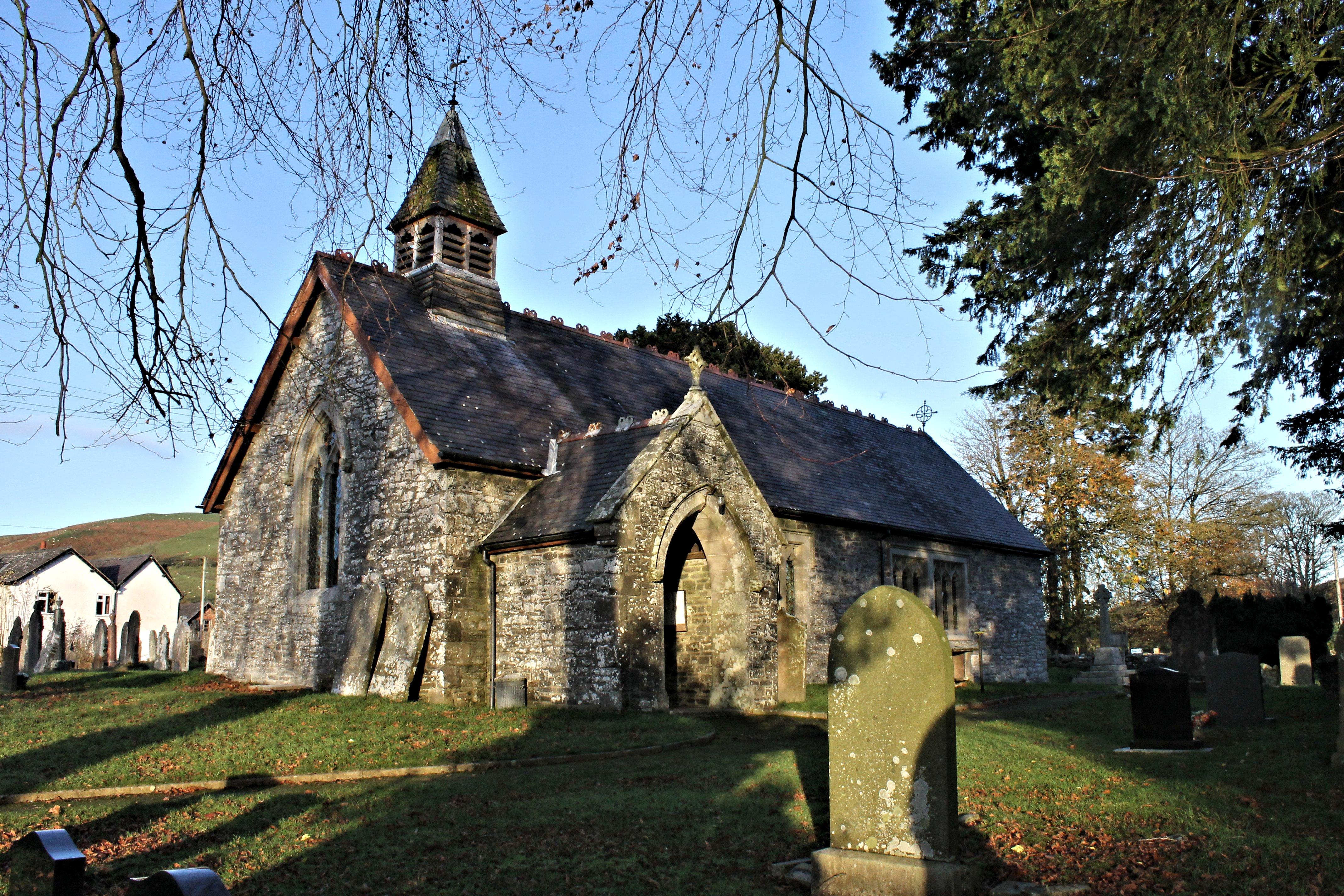 St David, Llanddewi Ystradenni, Powys, Wales. SO1080868636. St David's church lies in a partly curvilinear churchyard on the east side of the River Ithon in the parish of Upper Ithon Valley. Church also known as 'Llanddewi'.